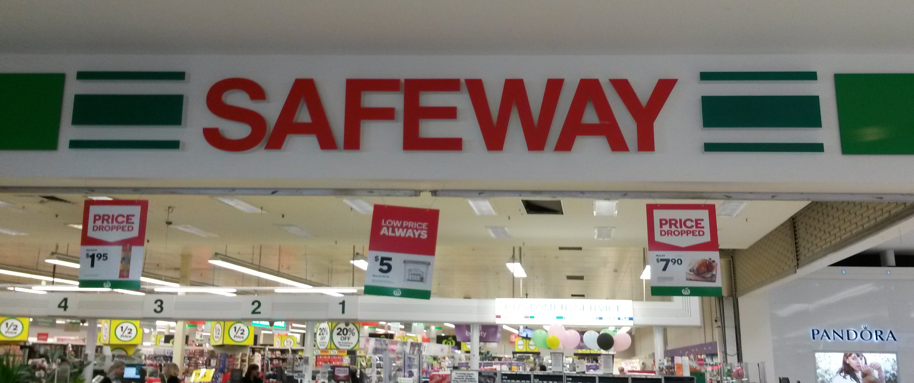 This is one of the Woolworths stores that still had a Safeway sign at the front before it was converted to Woolworths in May 2017. This sign was located at Pacific Epping Shopping Centre.